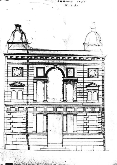 Architectdrawing of the Ettlingen synagogue (Germany)